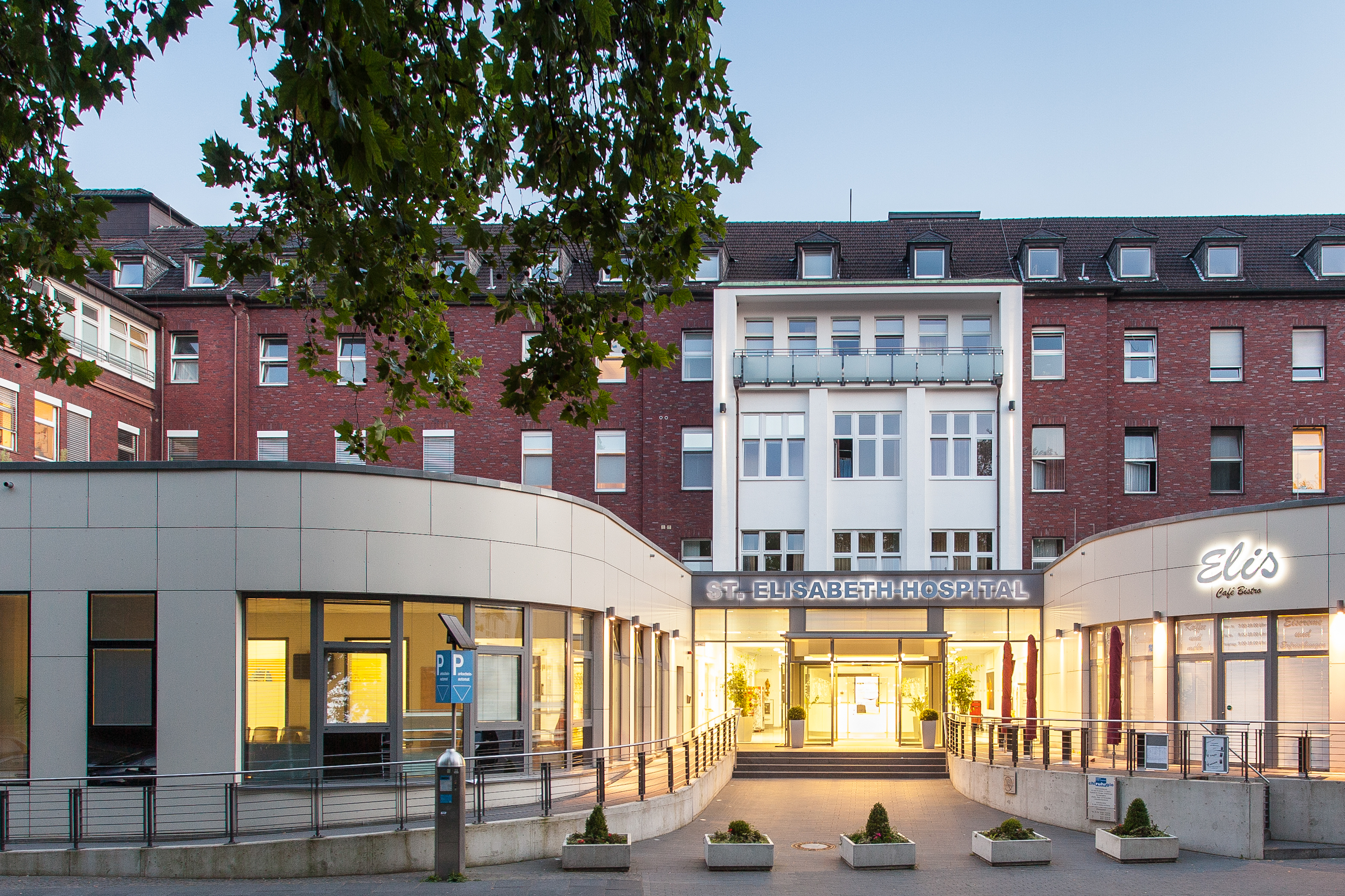 Main entrance of St. Elisabeth-Hospital